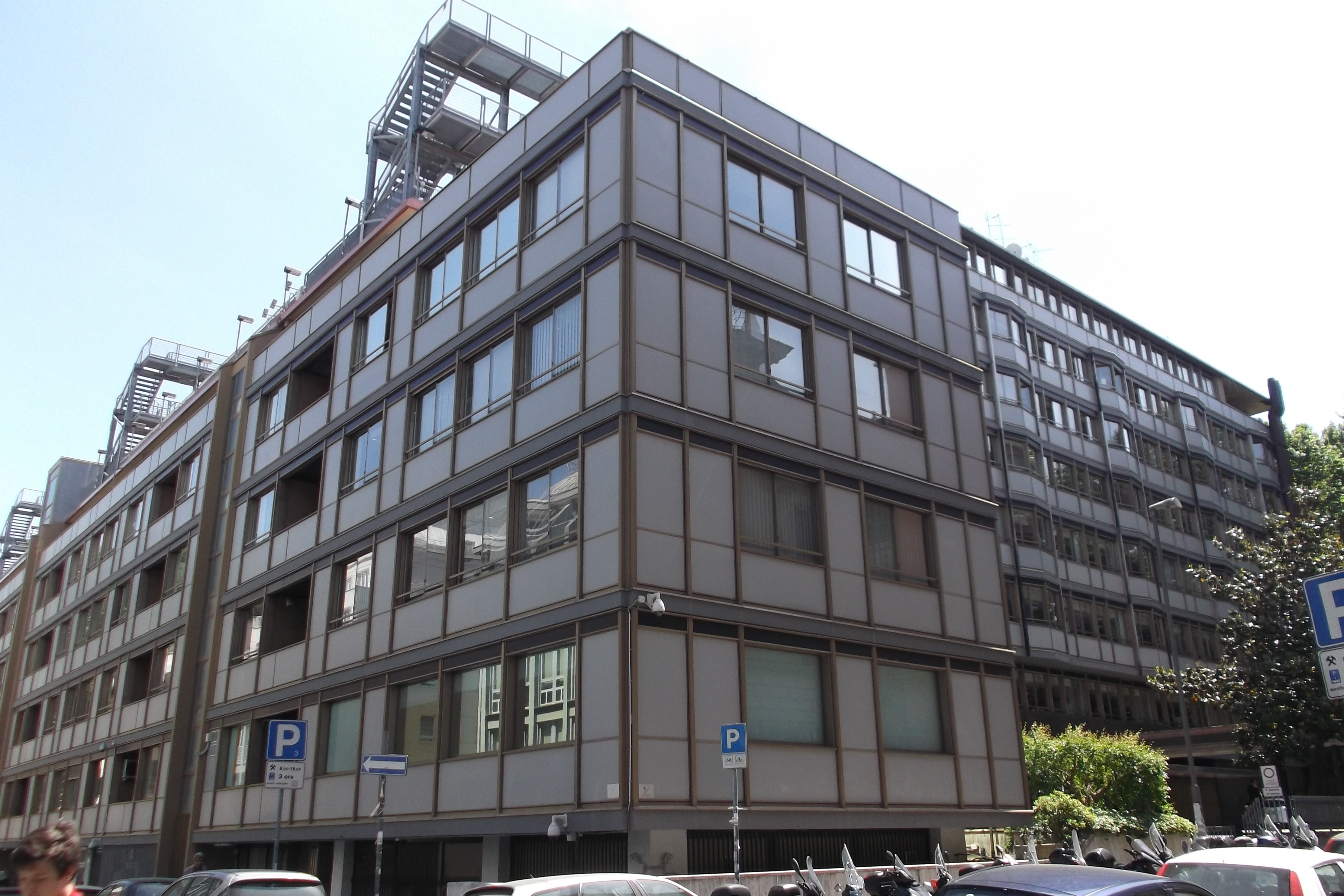 The building of the headquarter of Enel in Rome, Italy